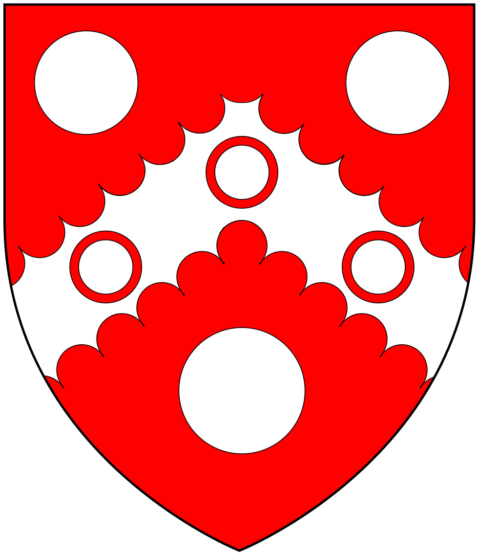 Arms of Webber of Buckland House, Braunton, North Devon: Gules, on a chevron engrailed argent between three plates three annulets of the first (As seen on various mural monuments to the Webber family in St Brannock's Church, Braunton. Blazoned with different tinctures in Vivian, Lt.Col. J.L., (Ed.) The Visitation of the County of Devon: Comprising the Heralds' Visitations of 1531, 1564 & 1620, Exeter, 1895, pp.497-9, pedigree of Webber of Buckland, p.812)